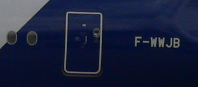 radio station aeronautical